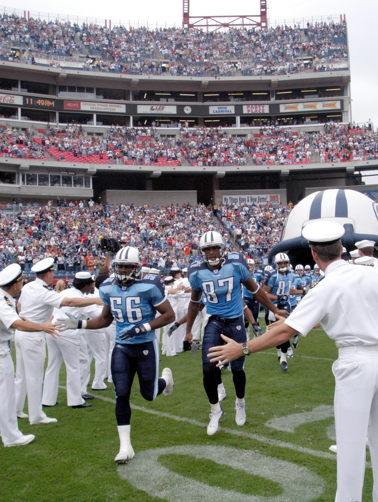 Nashville, Tenn. (Oct. 12, 2003) -- Players from the National Football League (NFL) Tennessee “Titans” are greeted by Sailors from the aircraft carrier USS Theodore Roosevelt (CVN 71), as they take the field during week six of the regular season against the Houston “Texans.” Crewmembers were invited by the Titans and the city of Nashville as guests to enjoy the game and participate in opening ceremonies.